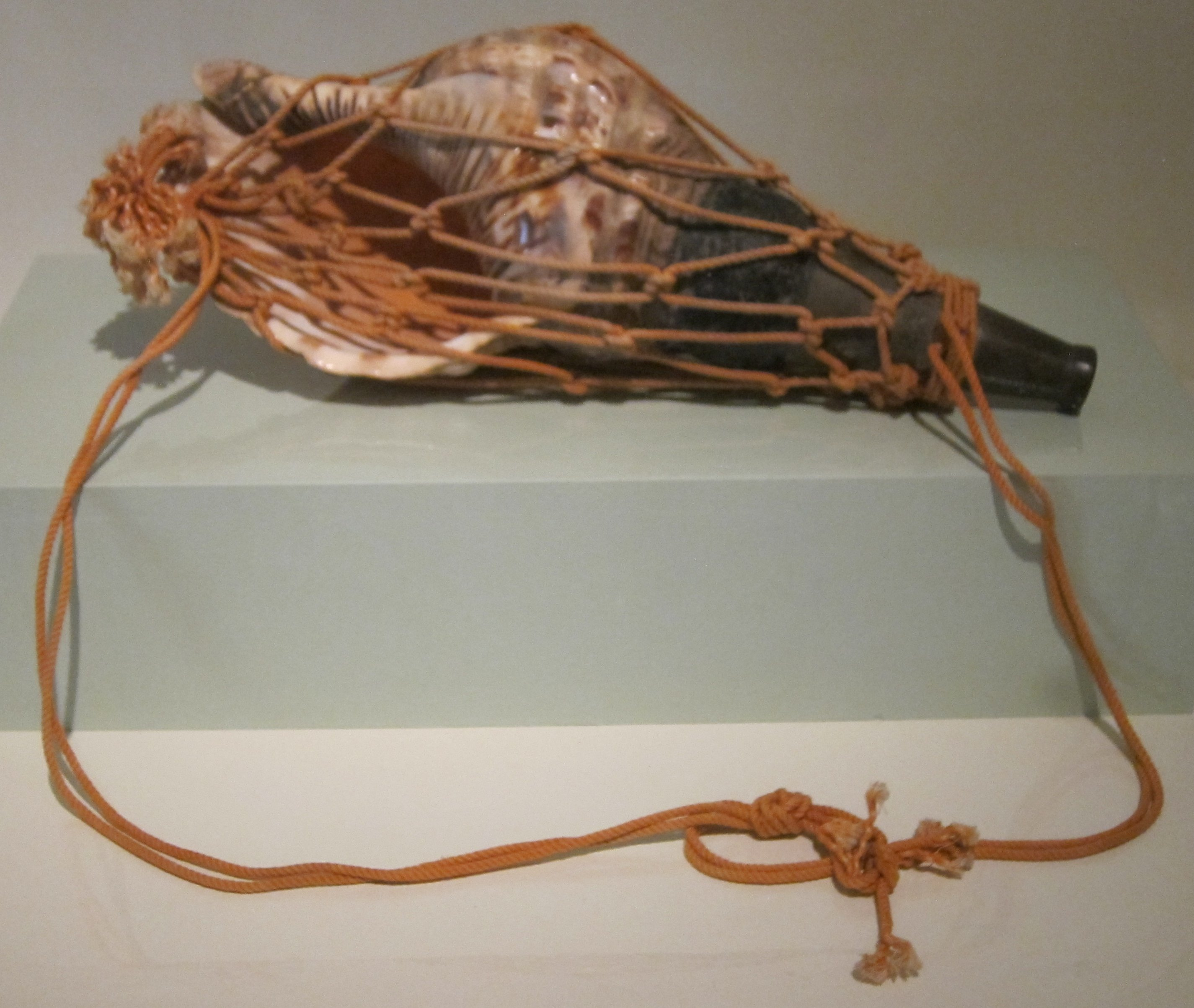 Conch–shell trumpet, Japanese battle horn, late 19th century, conch-shell, German silver, cotton mesh, copper, nickel, zinc and cord